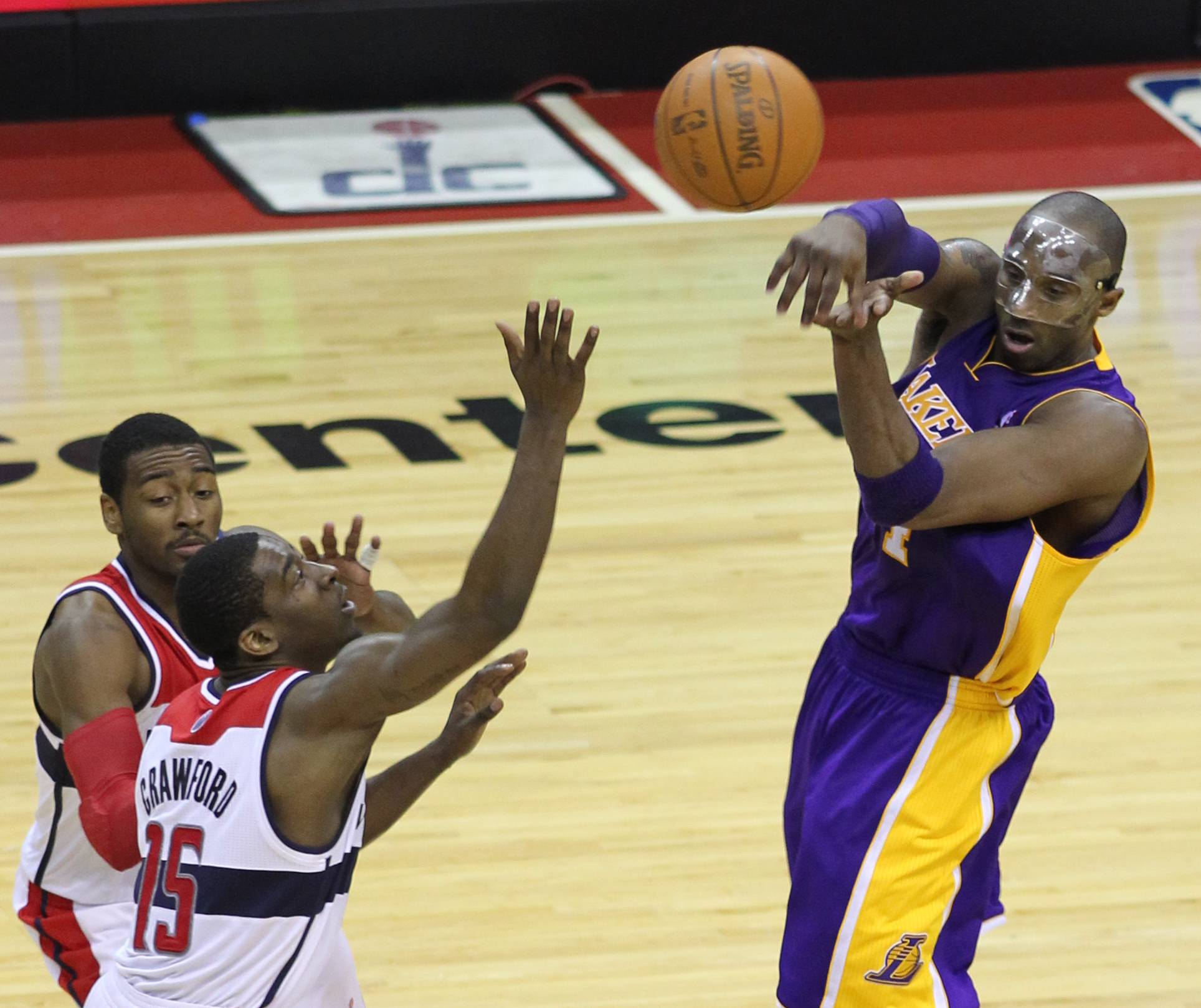 Lakers at Wizards March 7, 2012